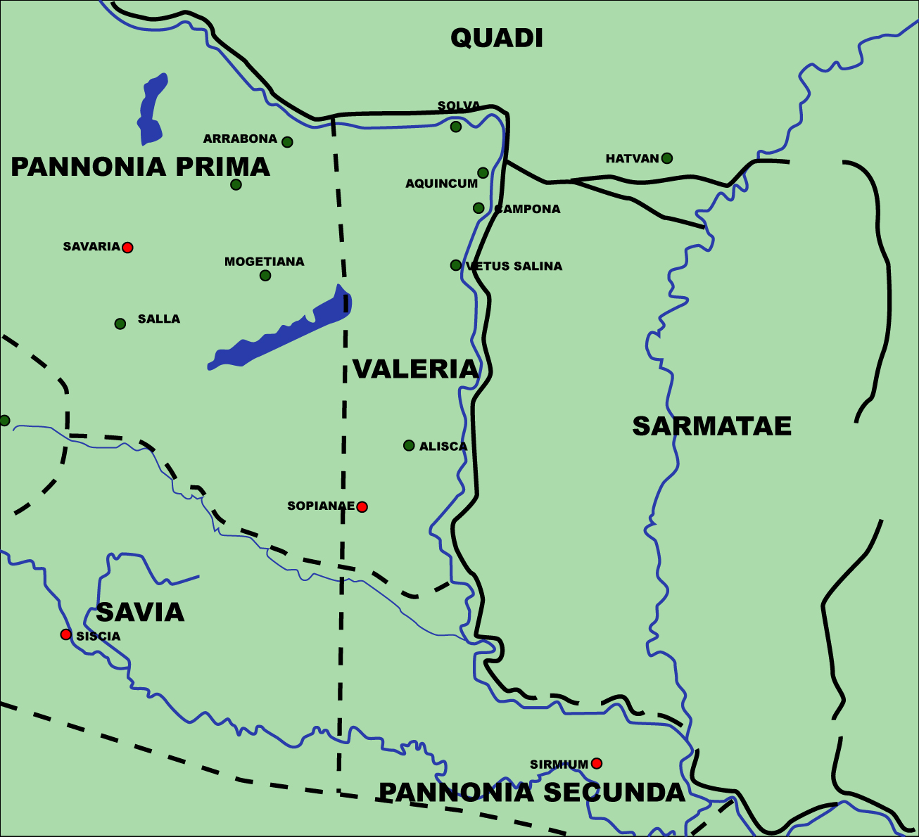 Division of Pannonia after 296.